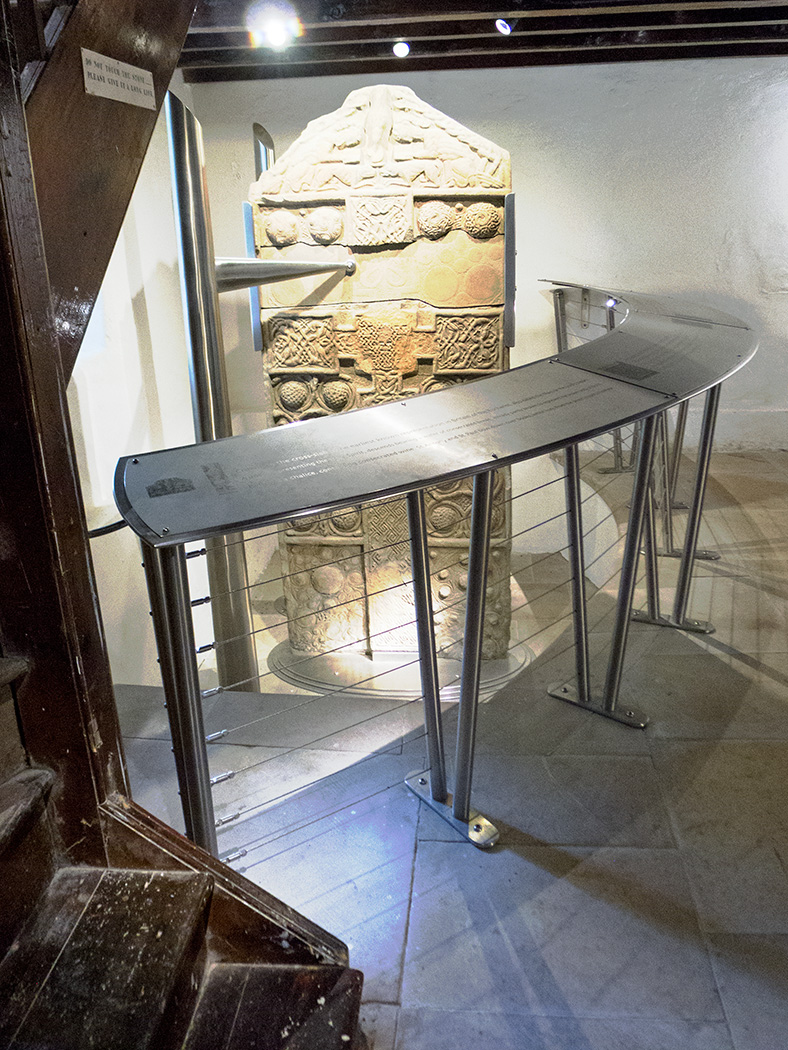 The Pictish Cross Slab housed in Nigg Old Church